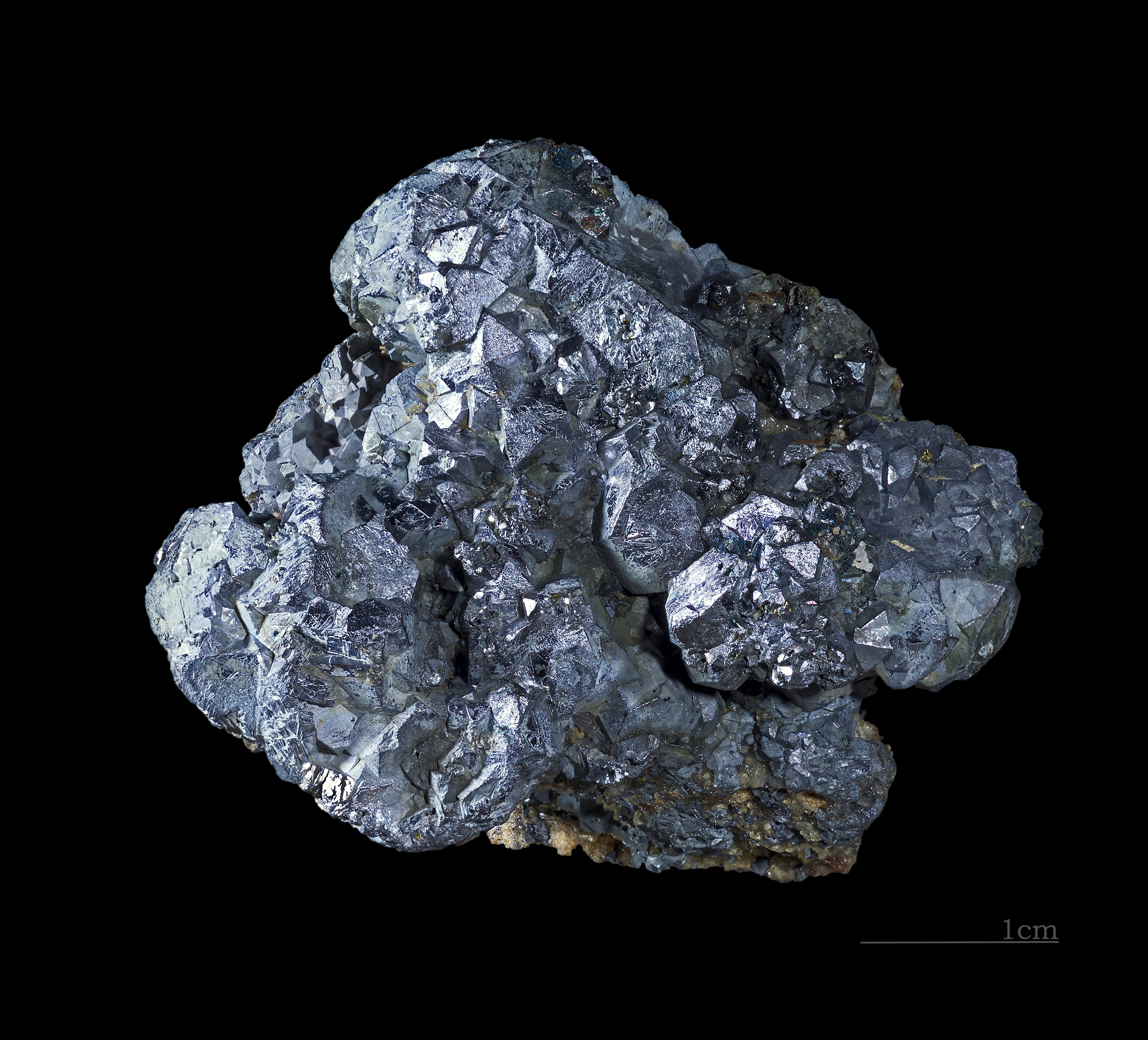 Smaltite Schneeberg Germany (4.3x3.5cm)